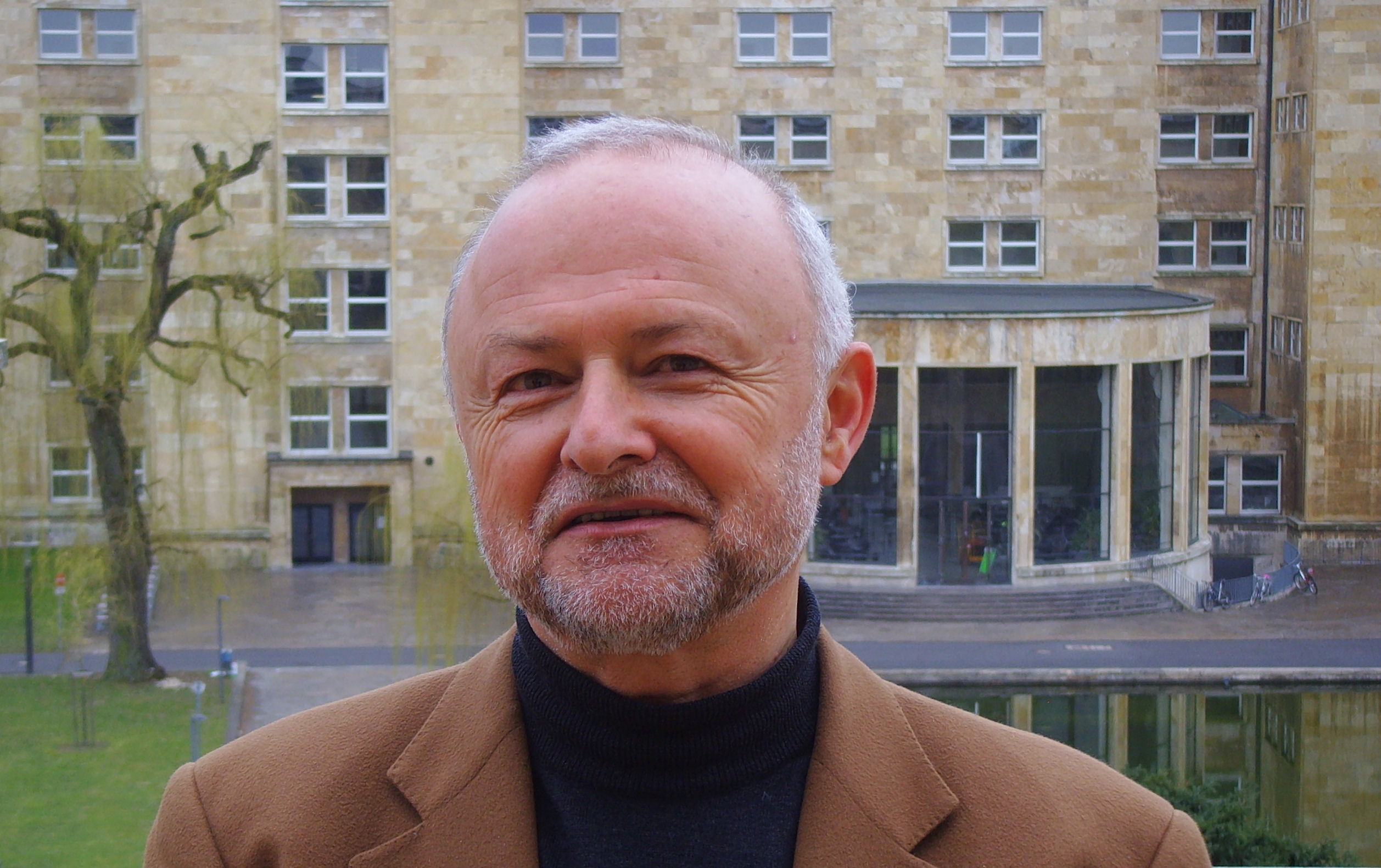 Cesare Montecucco, University of Padua, Full Professor of General Pathology in the Faculty of Sciences.